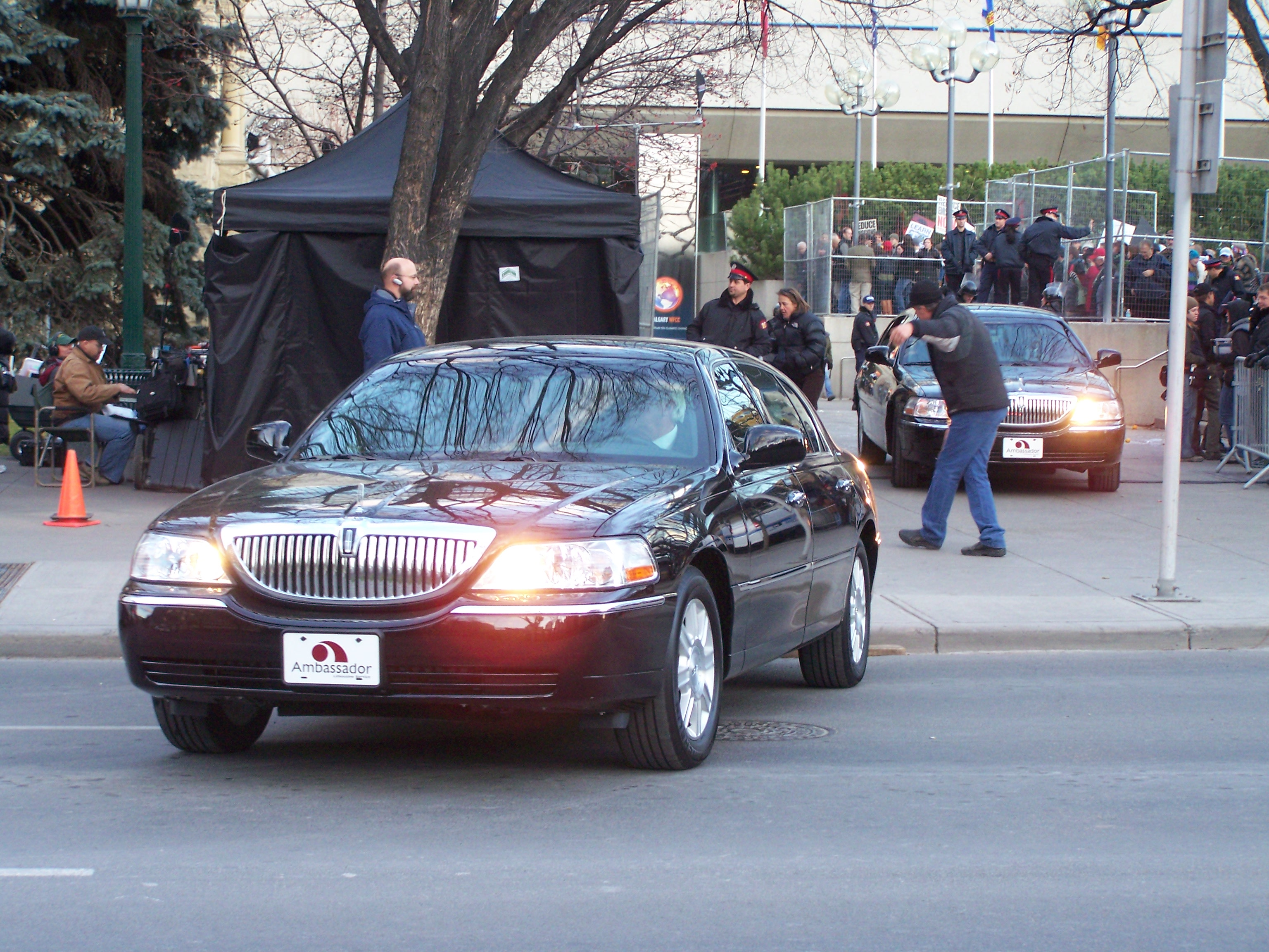 This is outside City Hall where a scene of the mini-series Burn Up was being shot. Taken in Calgary, Alberta, Canada.